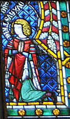 Albert II of Habsburg